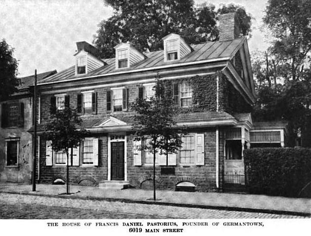 Photograph circa 1919 of the home of Francis Pastorius the founder of Germantown, PA